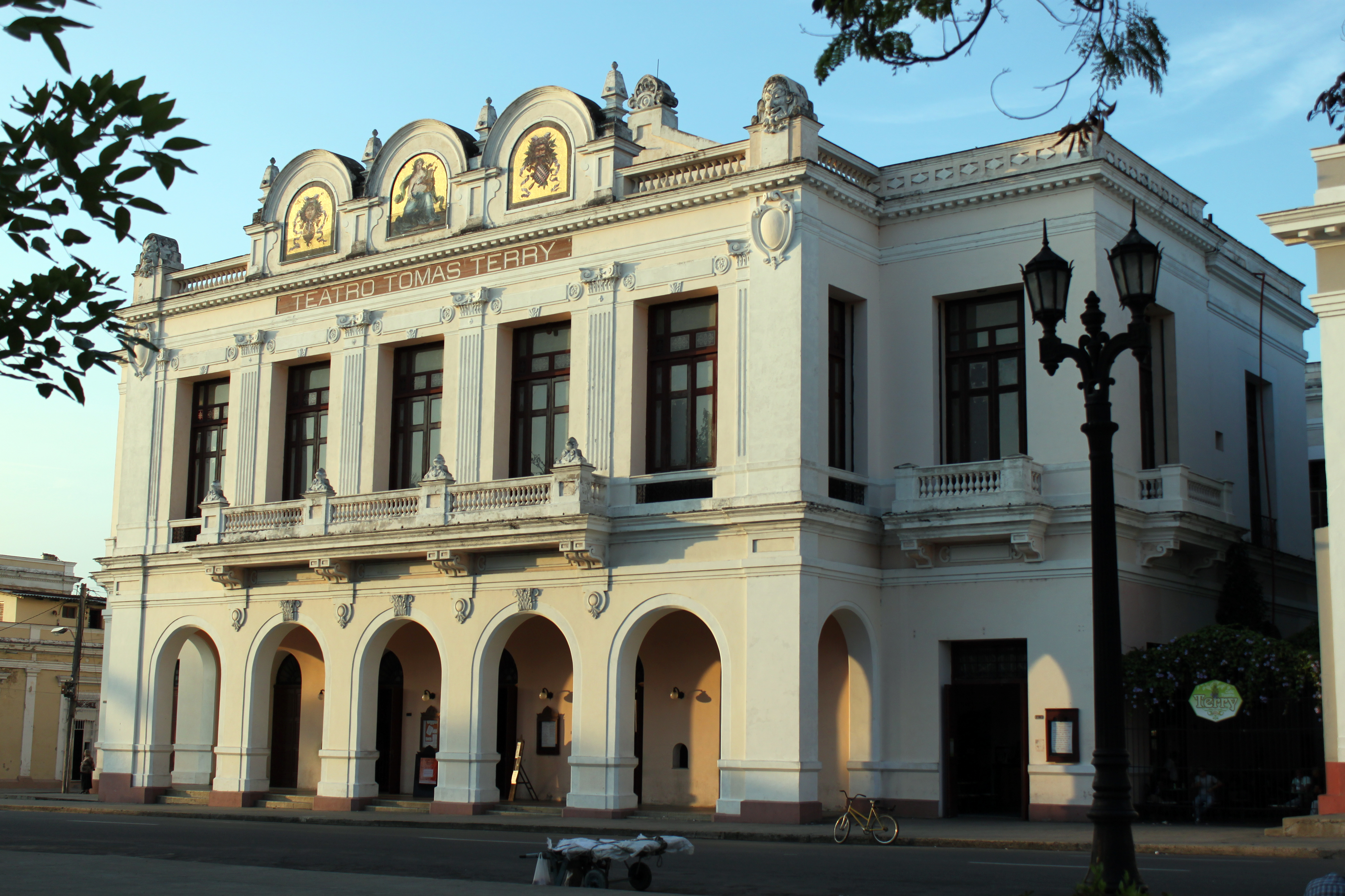 Tomas Terry Theatre, Cienfuegos, Cuba